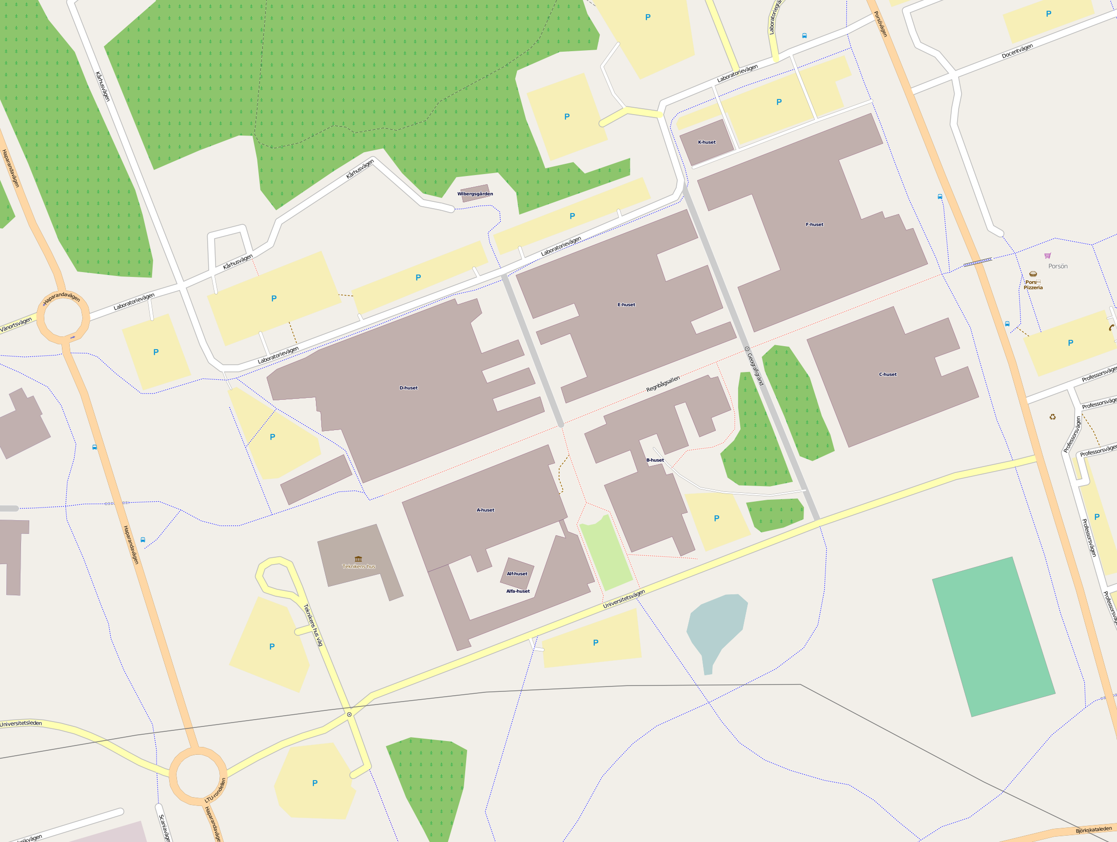 This map of Luleå University of Technology was created from OpenStreetMap project data, collected by the community. This map may be incomplete, and may contain errors. Don't rely solely on it for navigation.